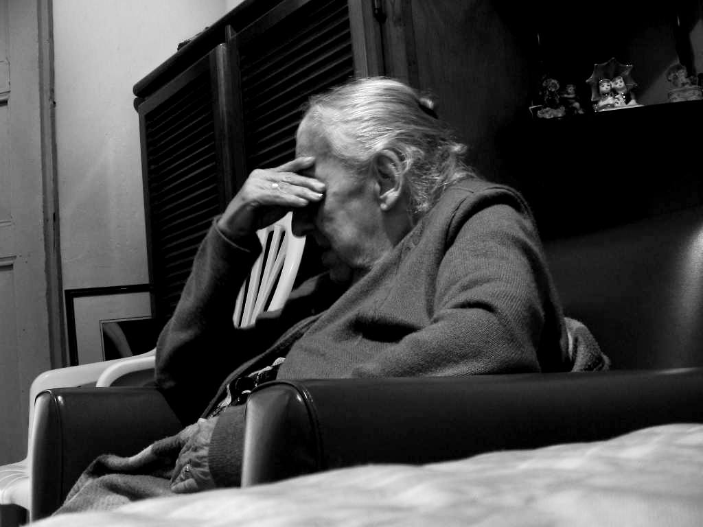 My beautiful grandma sad and worry .... but so beautiful in my world ... in my soul